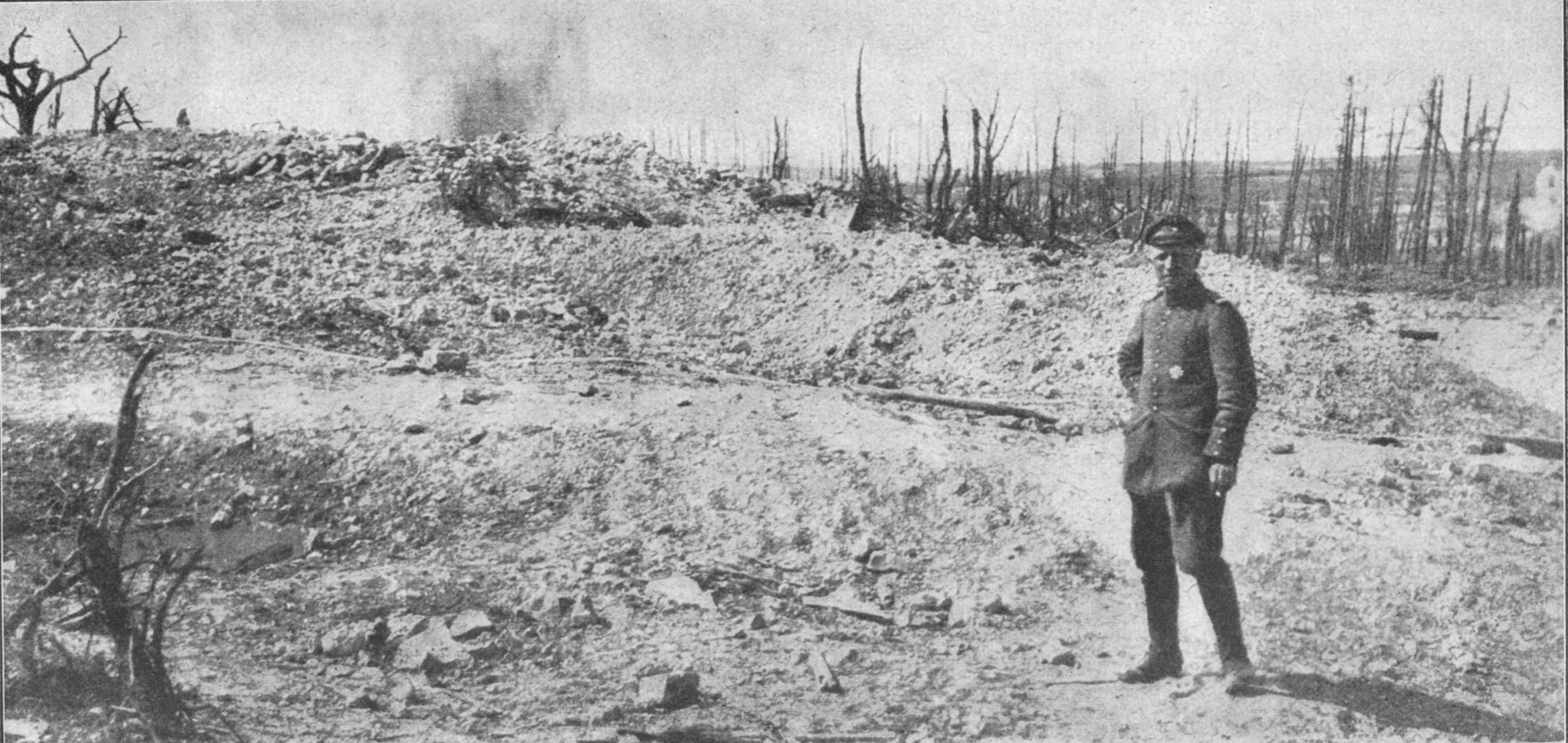 At the bottom of Hill 304 (Malancourt-Haucourt)